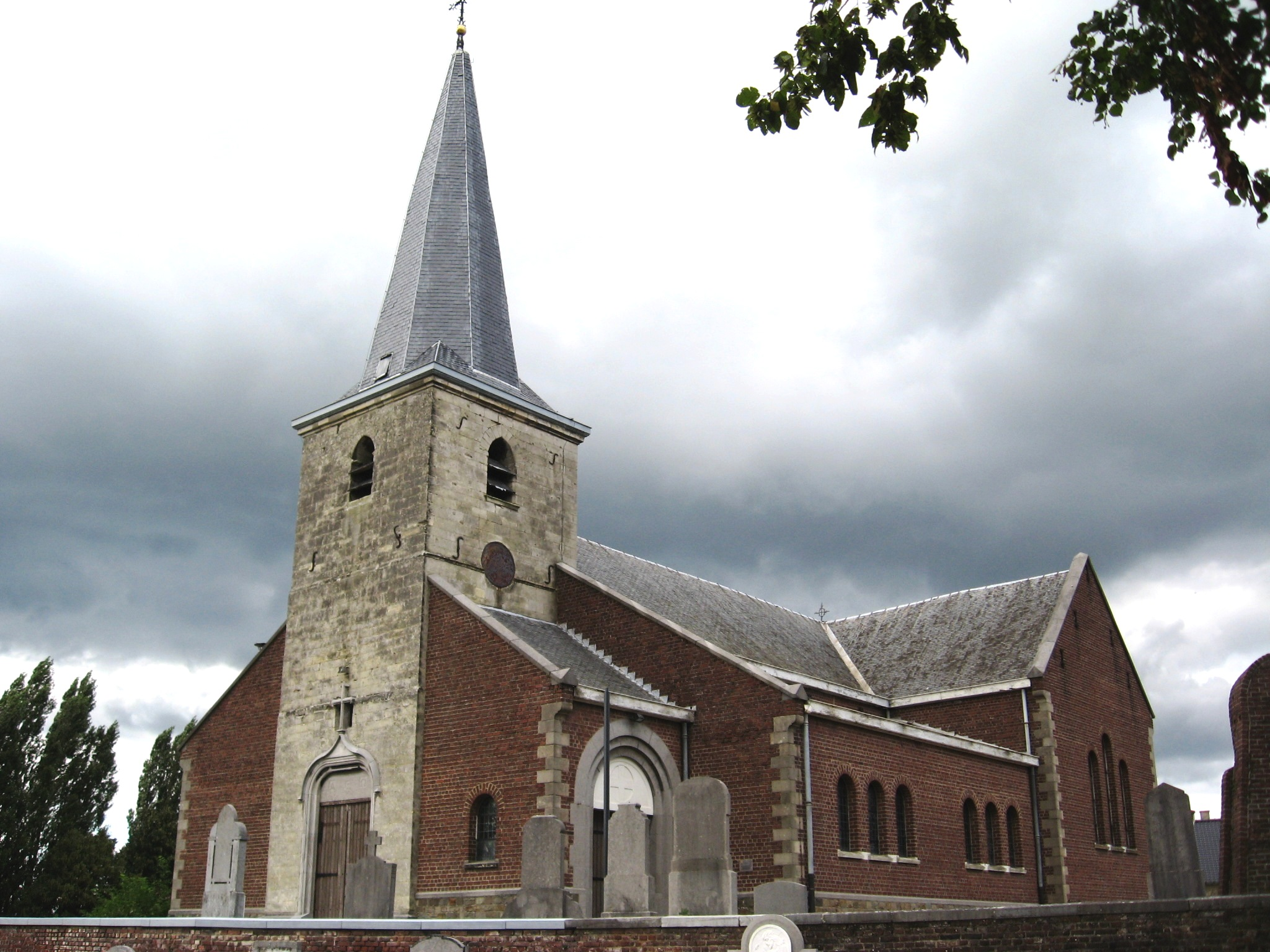 Church of Saint Aldegonde in Kleine-Spouwen, Bilzen, Limburg, Belgium